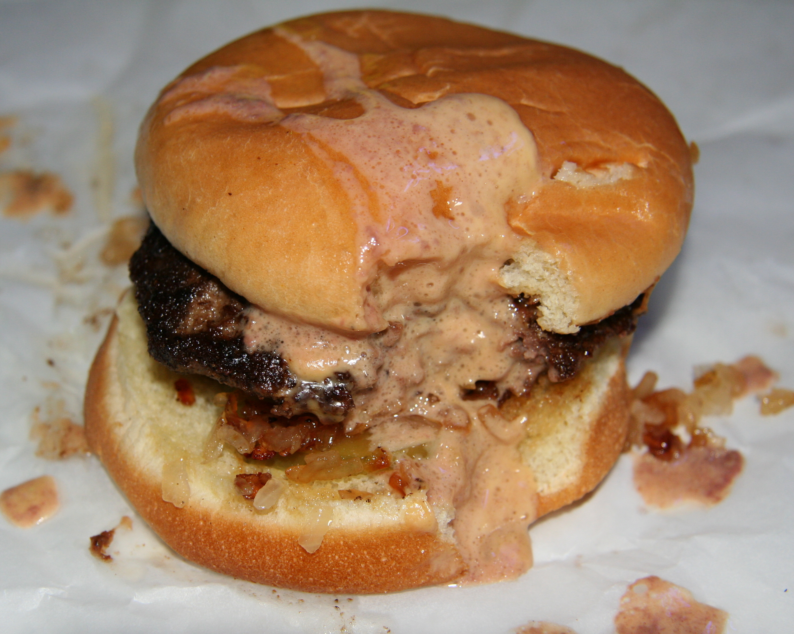 A Jucy Lucy burger with molten cheese coming from the inside of the beef patty, in a bun with fried onions, served at Matt's Bar on Cedar Avenue in Minneapolis, Minnesota